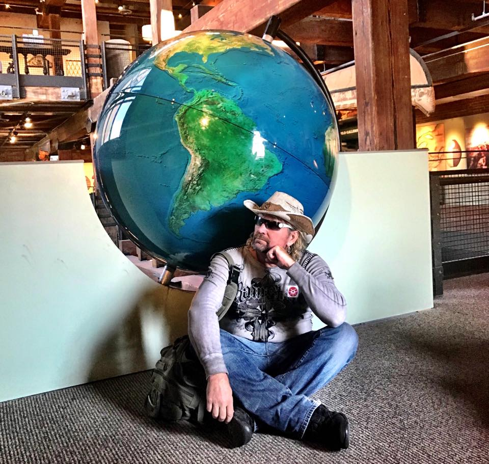 Bill Wiatrak posing with a globe in the Heinz History Museum, Pittsburgh,PA